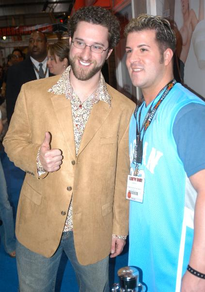 Actor Dustin Diamond at the 2007 Adult Entertainment Expo.